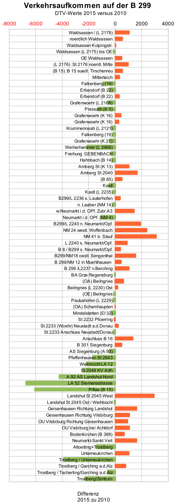 this graph shows the variation in traffic on German road B 299 counted on different measuring points in the years 2010 and 2015; the source of the measuring results is and